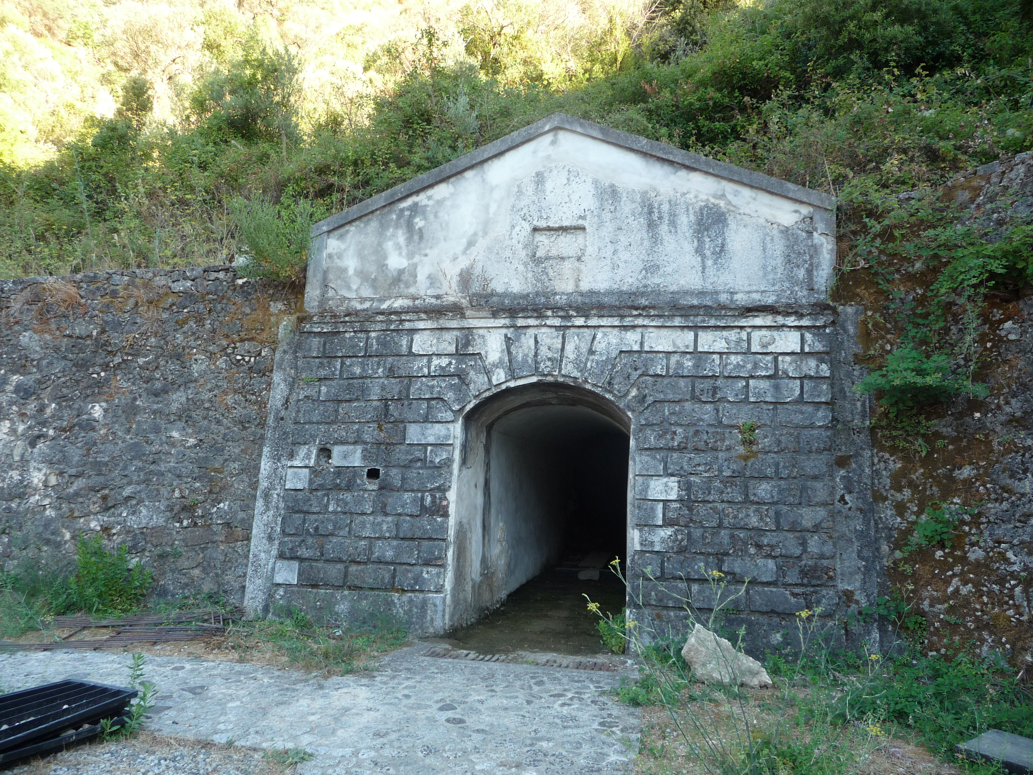 Mine Garibaldi - Bivongi (RC) - italy